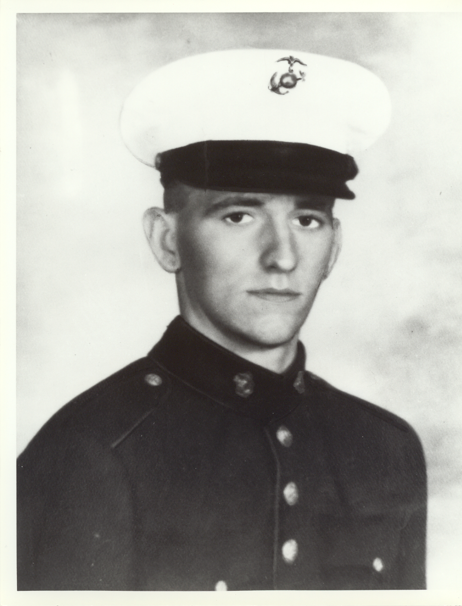 Melvin E. Newlin, USMC (1948-1967). Medal of Honor recipient. Author: United States Marine Corps Source: Official Marine Corps biography URL